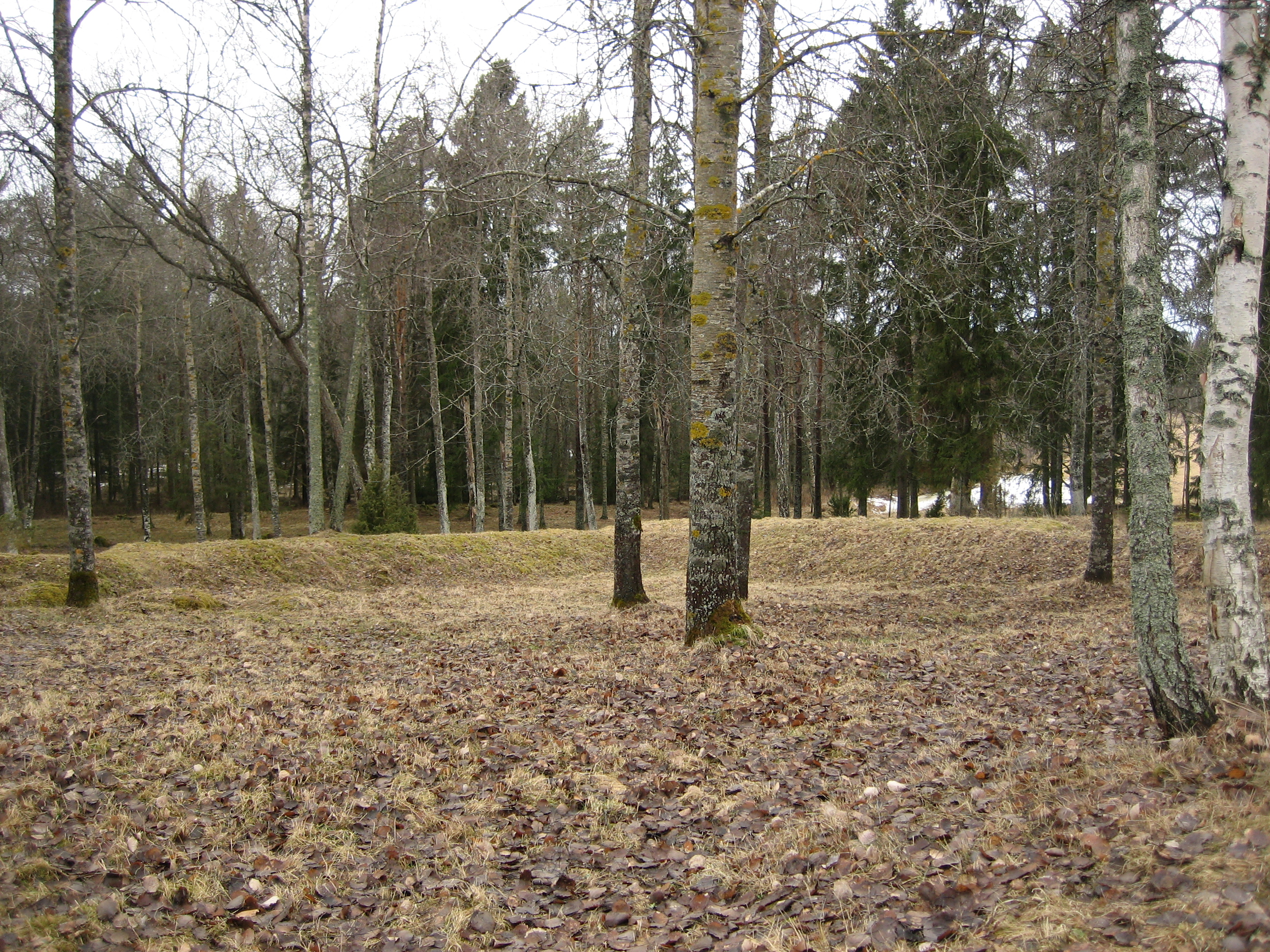 The Liinmaa Castle, former Vreghdenborch, at Linnamaa village, Eurajoki, Finland. The castle was active in the late 14th, early 15th century. The photograph shows the inside of the fortification.